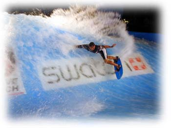 Kelly Slater carving the portable FlowBarrel during the Swatch tour.